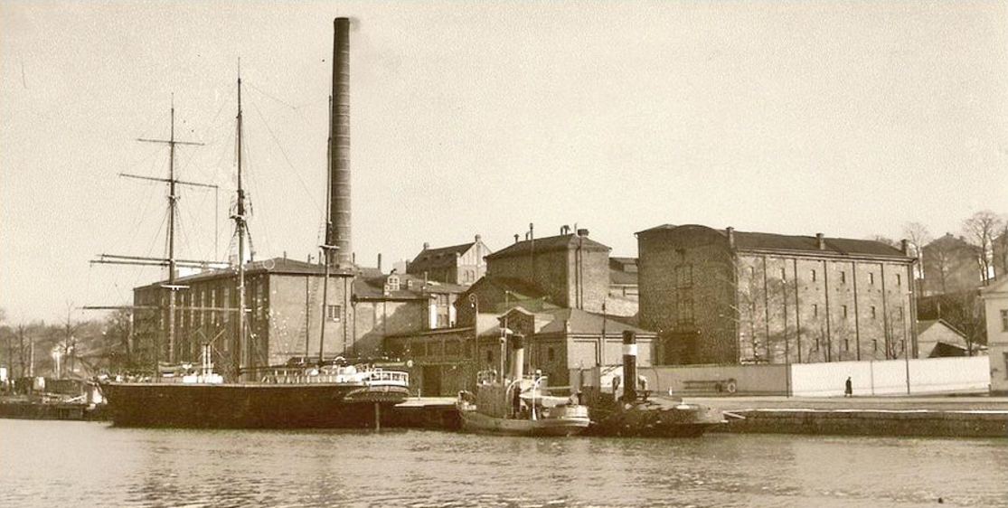 Former sugar mill by the Aura river in central Turku, completed 1859, demolished 1961. Architect Georg Theodor Chiewitz.